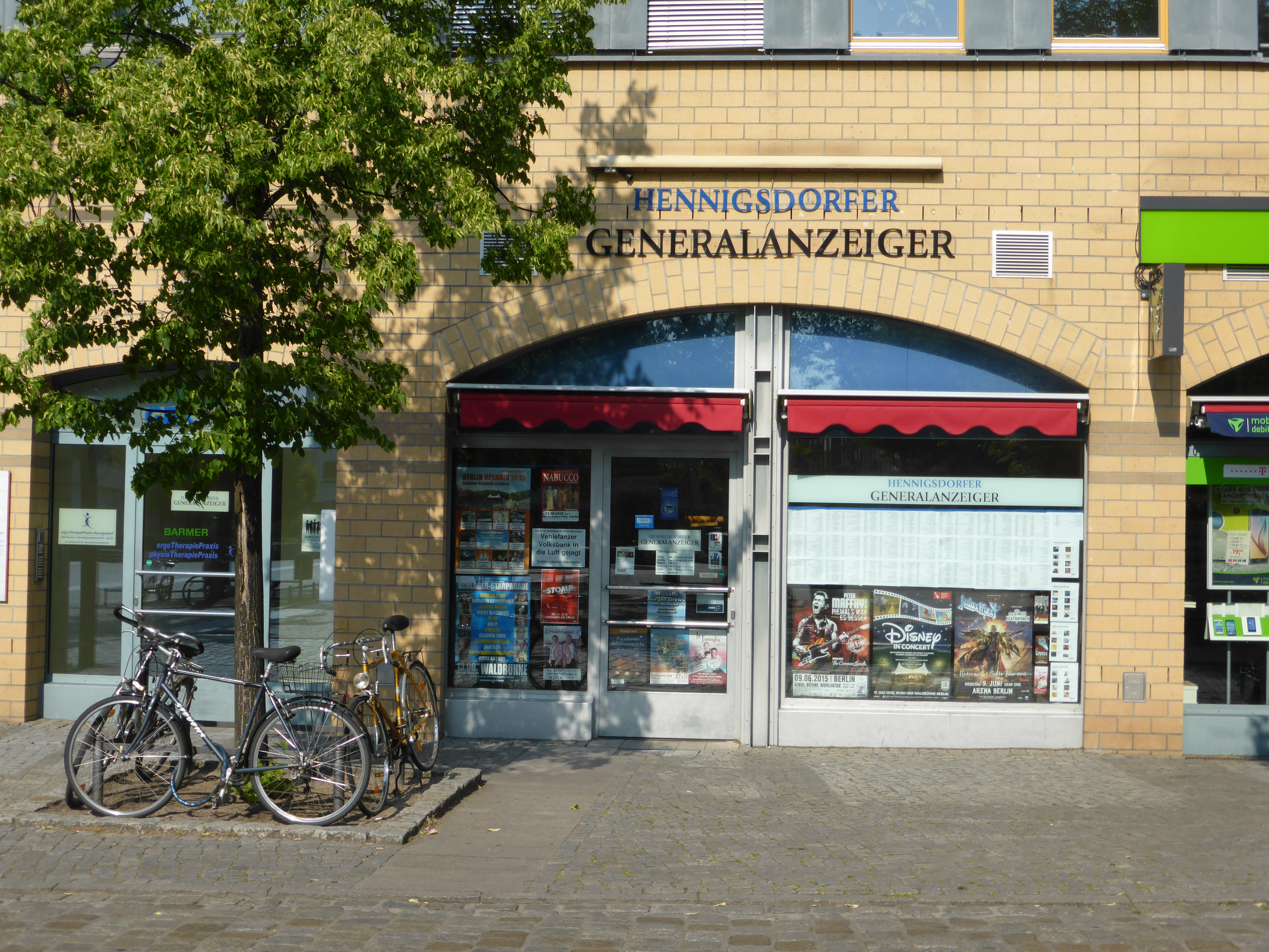 Office of the "Hennigsdorfer Generalanzeiger" newspaper next to the Hennigsdorf railway station